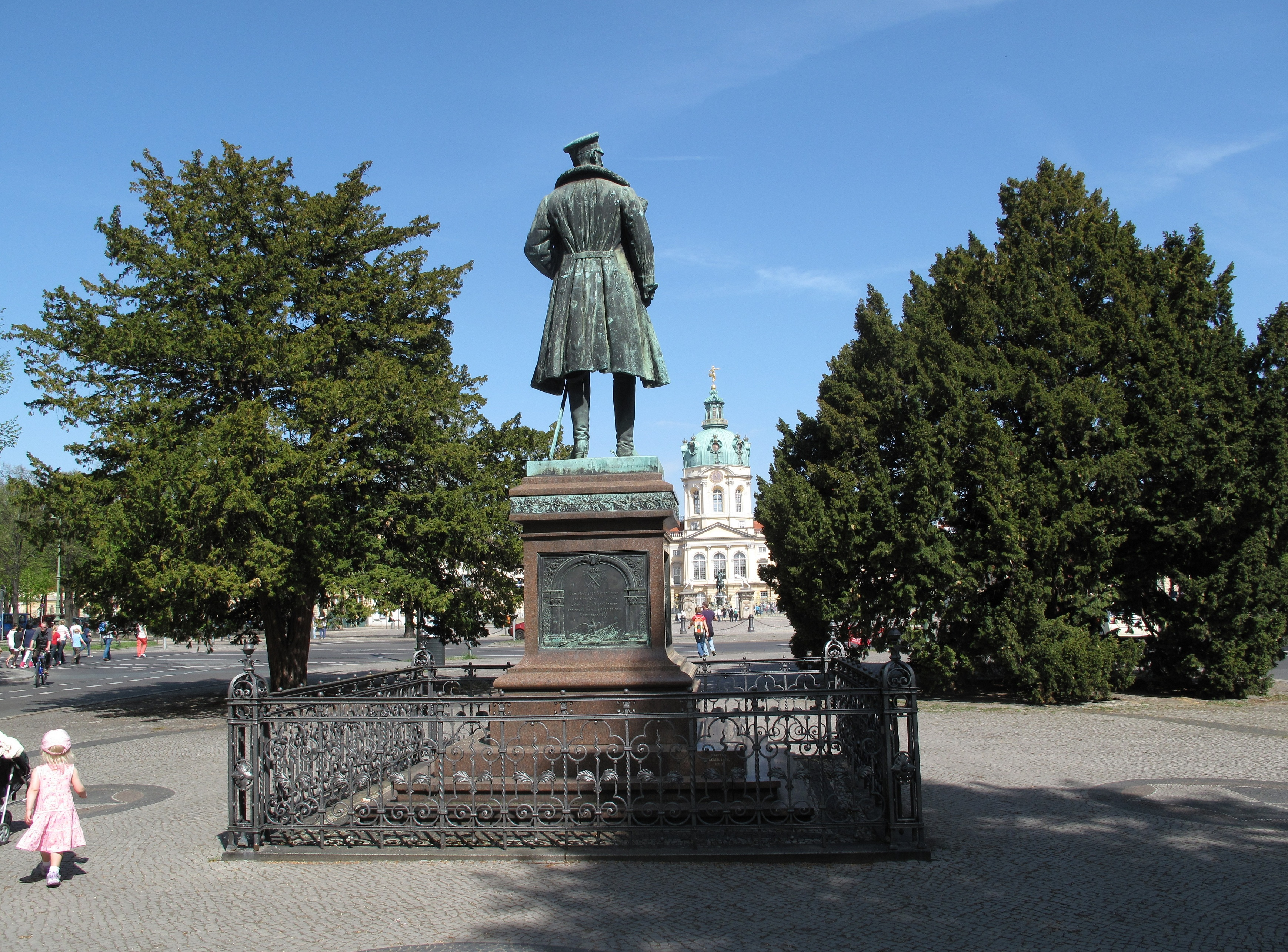 The Prinz-Albrecht-von-Preußen-Denkmal is a monument commemorating to Prince Albert of Prussia (1809–1872). The monument shows Prince Albert in 1870 as General of the Cavalry in the Franco-Prussian War. The pedestal-reliefs depict scenes from the Battle of Sedan and the Battle of Loigny-Poupry.The monument was created in 1901 by the german sculptors Eugen Boermel and Conrad Freyberg. It is located at the northern end of the Schloßstraße on the corner to the Spandauer Damm in Berlin-Charlottenburg. In the background Charlottenburg Palace.